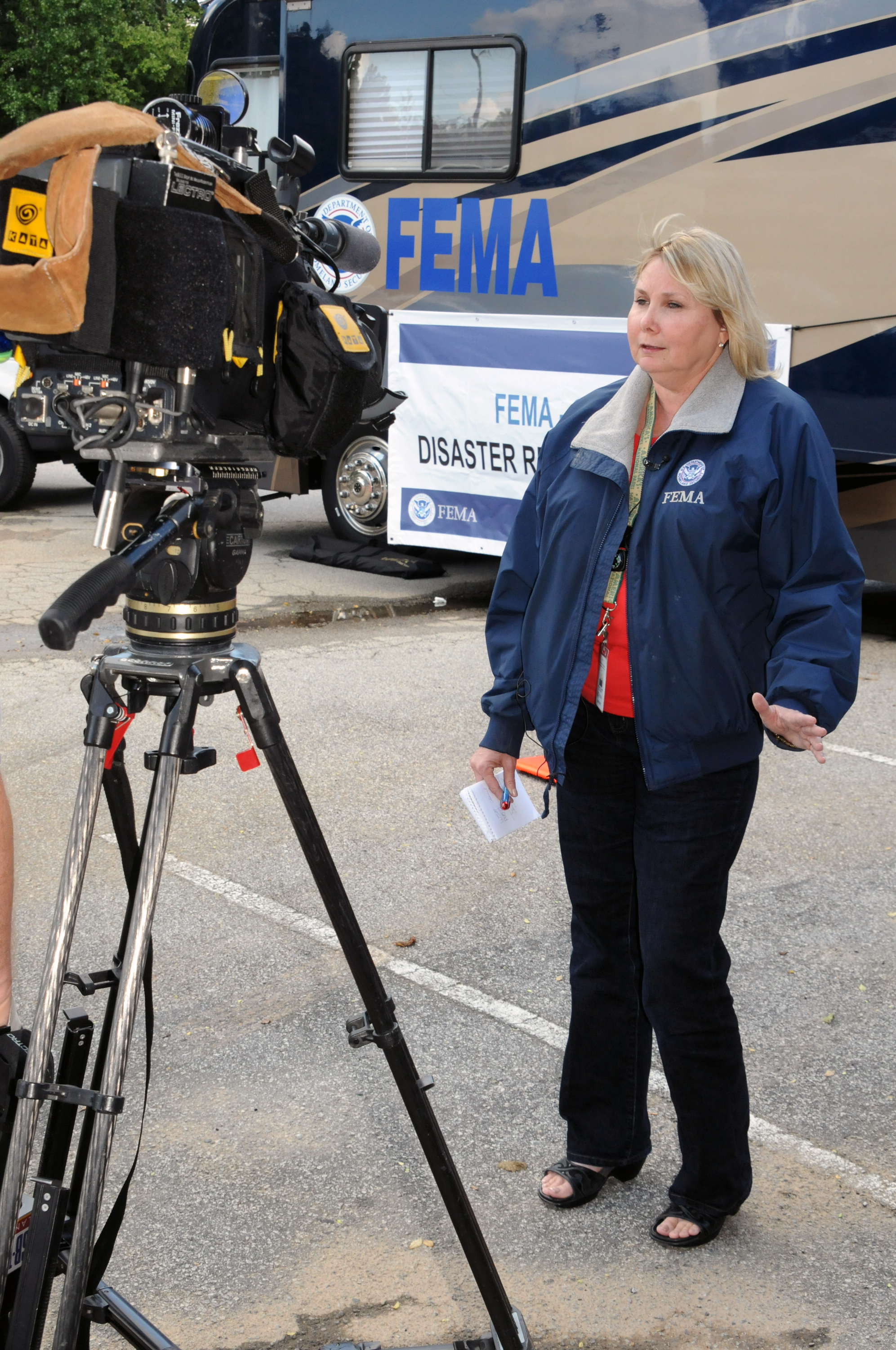 Douglasville, GA, September 27, 2009 -- A FEMA Public Information Officer provides on camera information about available disaster services to an Atlanta news media crew at the Douglas County State and FEMA Disaster Recovery Center. FEMA is here as result of severe storms and flooding. George Armstrong/FEMA